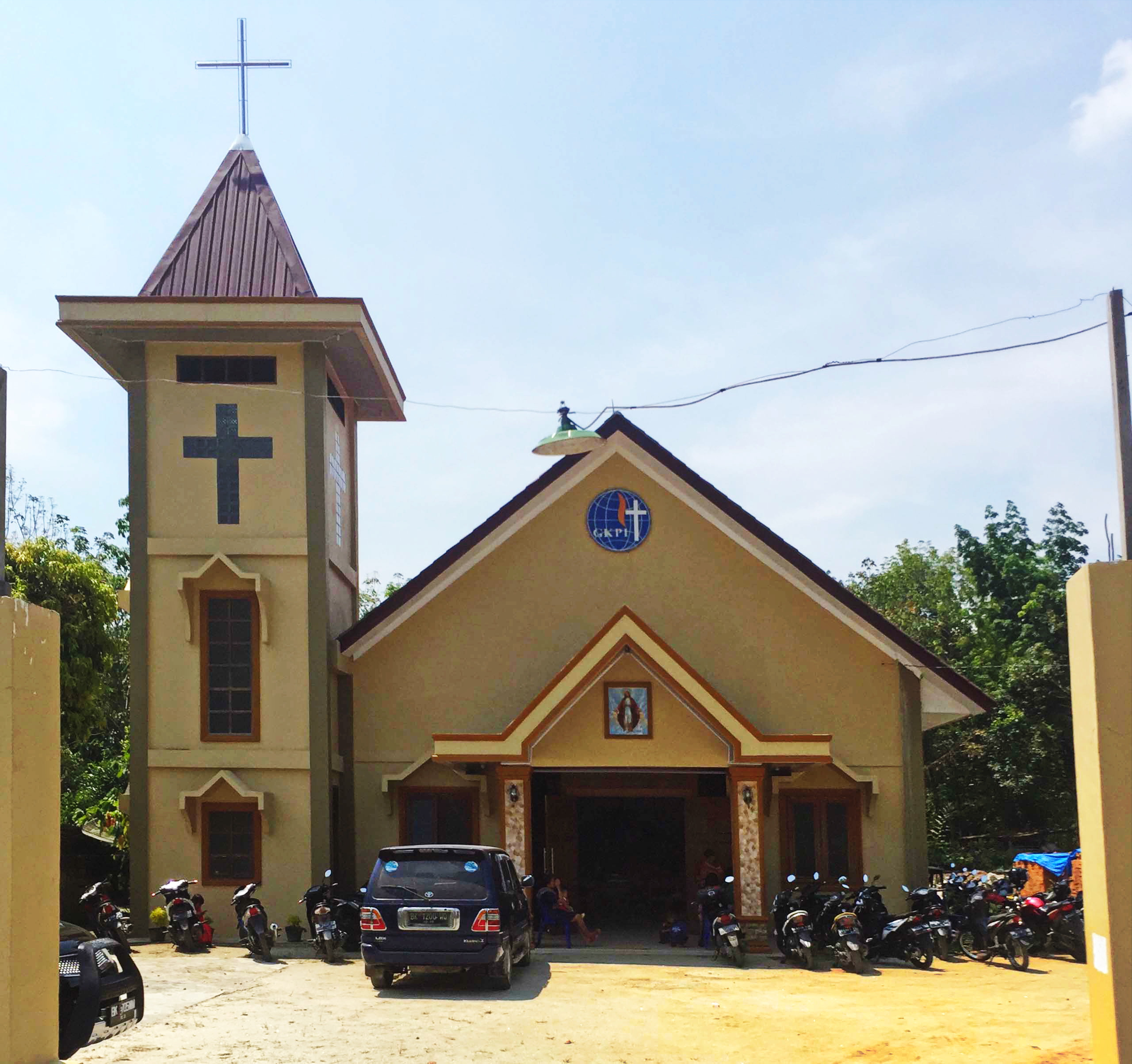 GKPI Pengantaran, Res. Tanah Jawa II Church in Tangga Batu, Hatonduhan, Simalungun